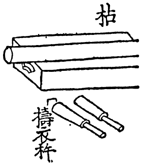 Kinuta (砧, a block for beating cloth) from the Wakan Sansai Zue